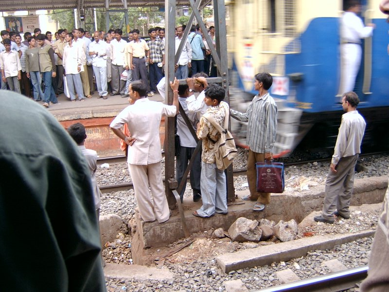 Commuters waiting to catch their local train in Bombay.